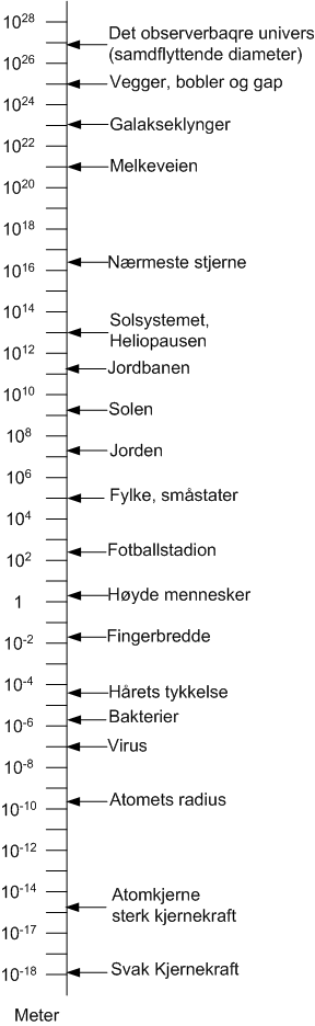 Distances, from the smallest nuclear scales to the largest cosmic distances